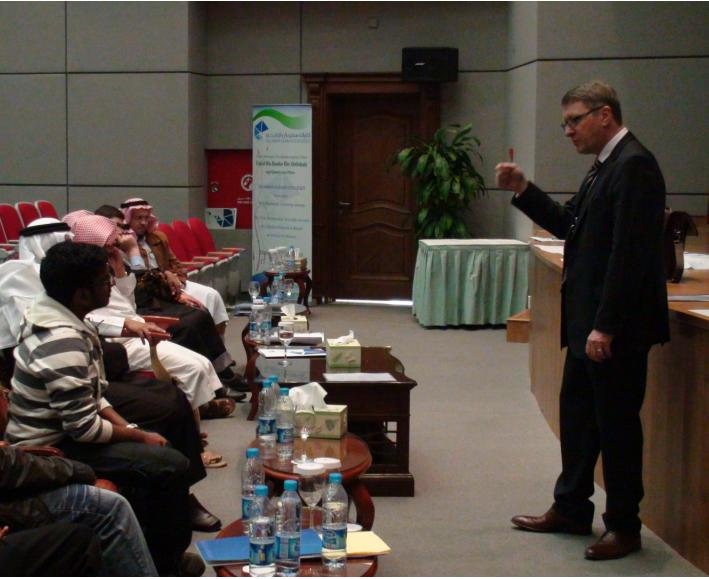 Prof Cees van der Vleuten with SRC students during the first PBL workshop.